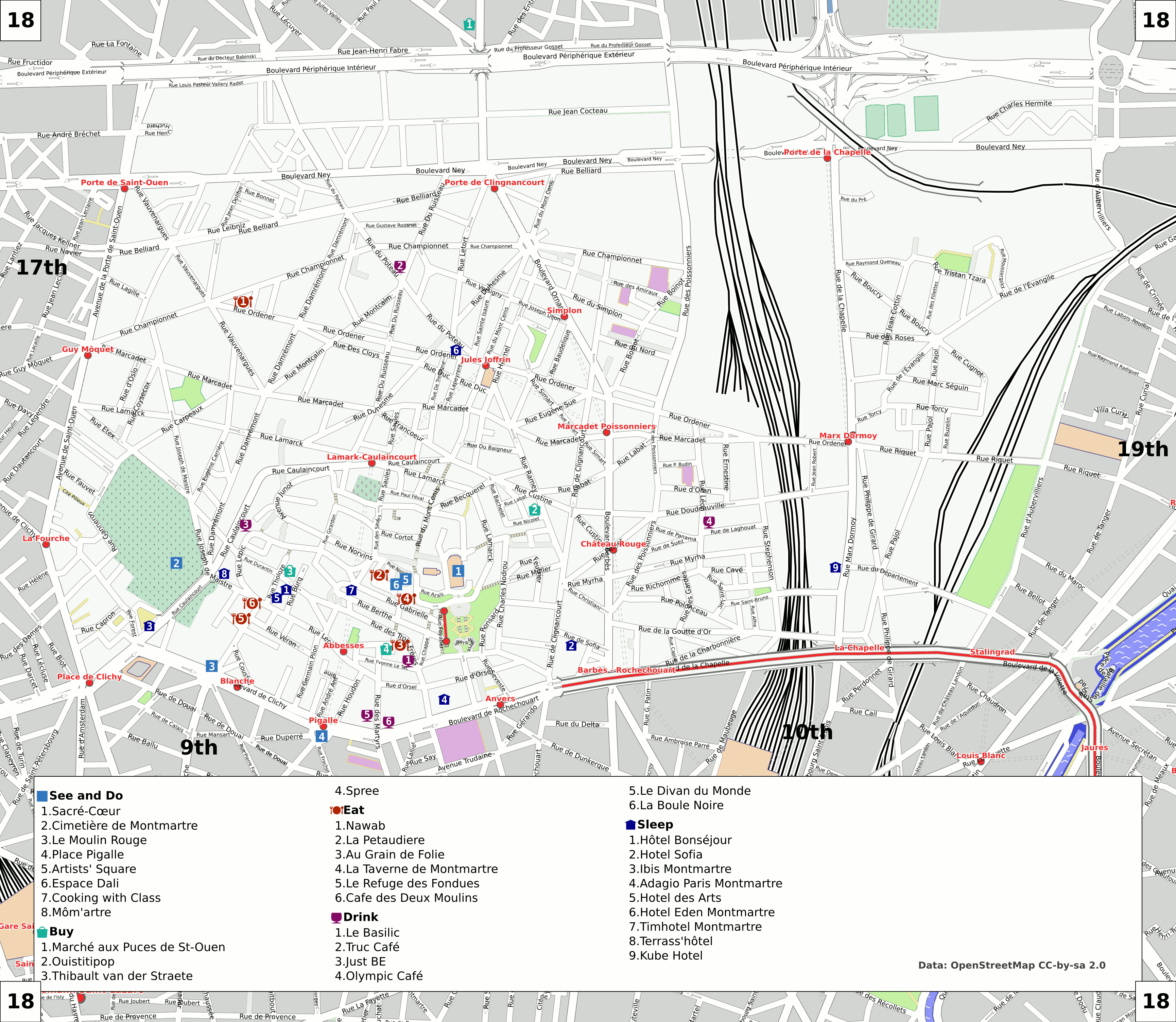 Paris 18th arrondissement map with listings.